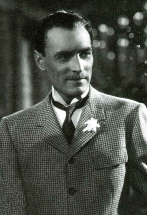 photo from the Italian magazine archivio personale (1940)